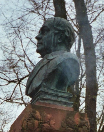 Otto Lindblad (1809-1864), composer and founder of the students' male choir at the University of Lund. Bust by artist John Börjeson in the park "Lundagård" in Lund, Sweden. Photographer: Fredrik Tersmeden, Lund, Sweden.